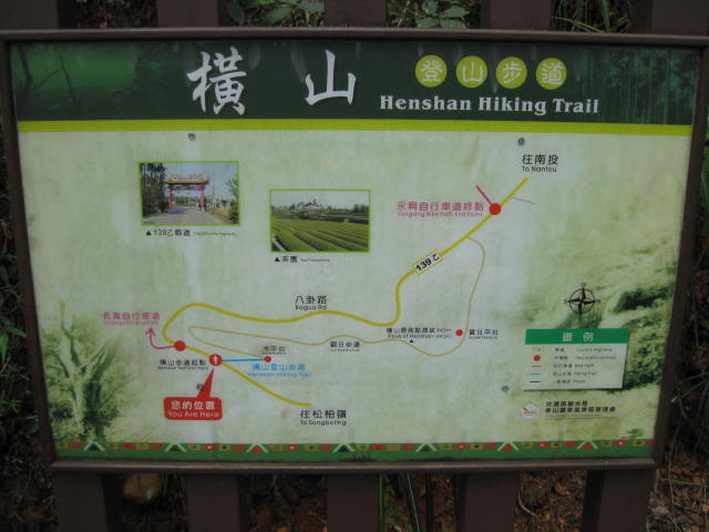 The map of Hengshan Hiking Trail stands next to the County Highway No.139B, it was probably located at Shetou Township near the border of Nantou County. Hengshan is highest peak of the Bagua Plateau,its height at 443 m(1,453 ft).